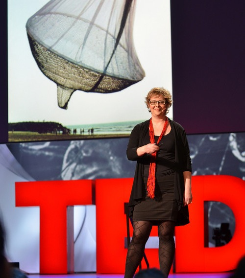 Janet Echelman at the 2011 TED conference